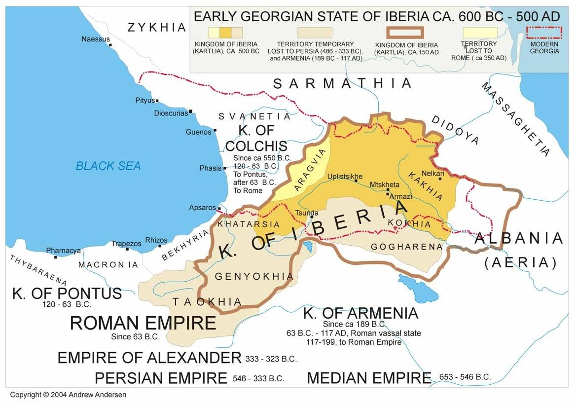 Early Georgian State of Iberia